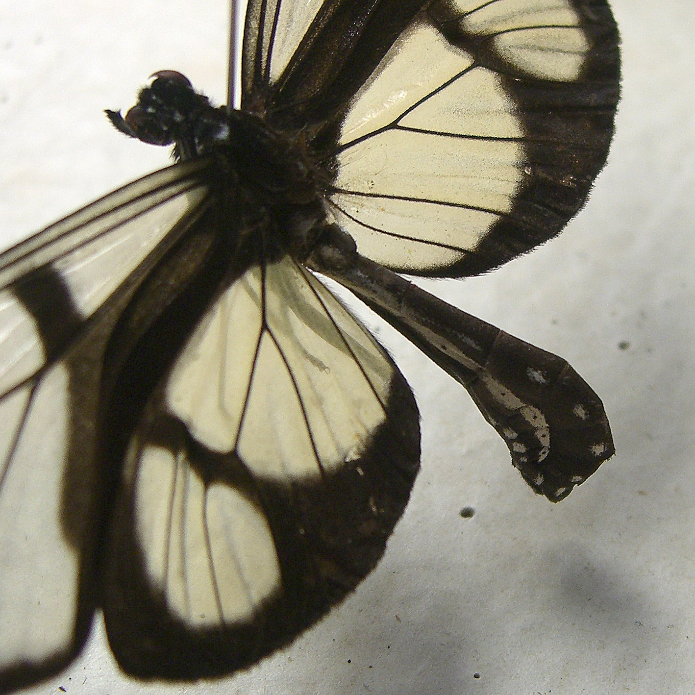 Description: Methona confusa, (male)